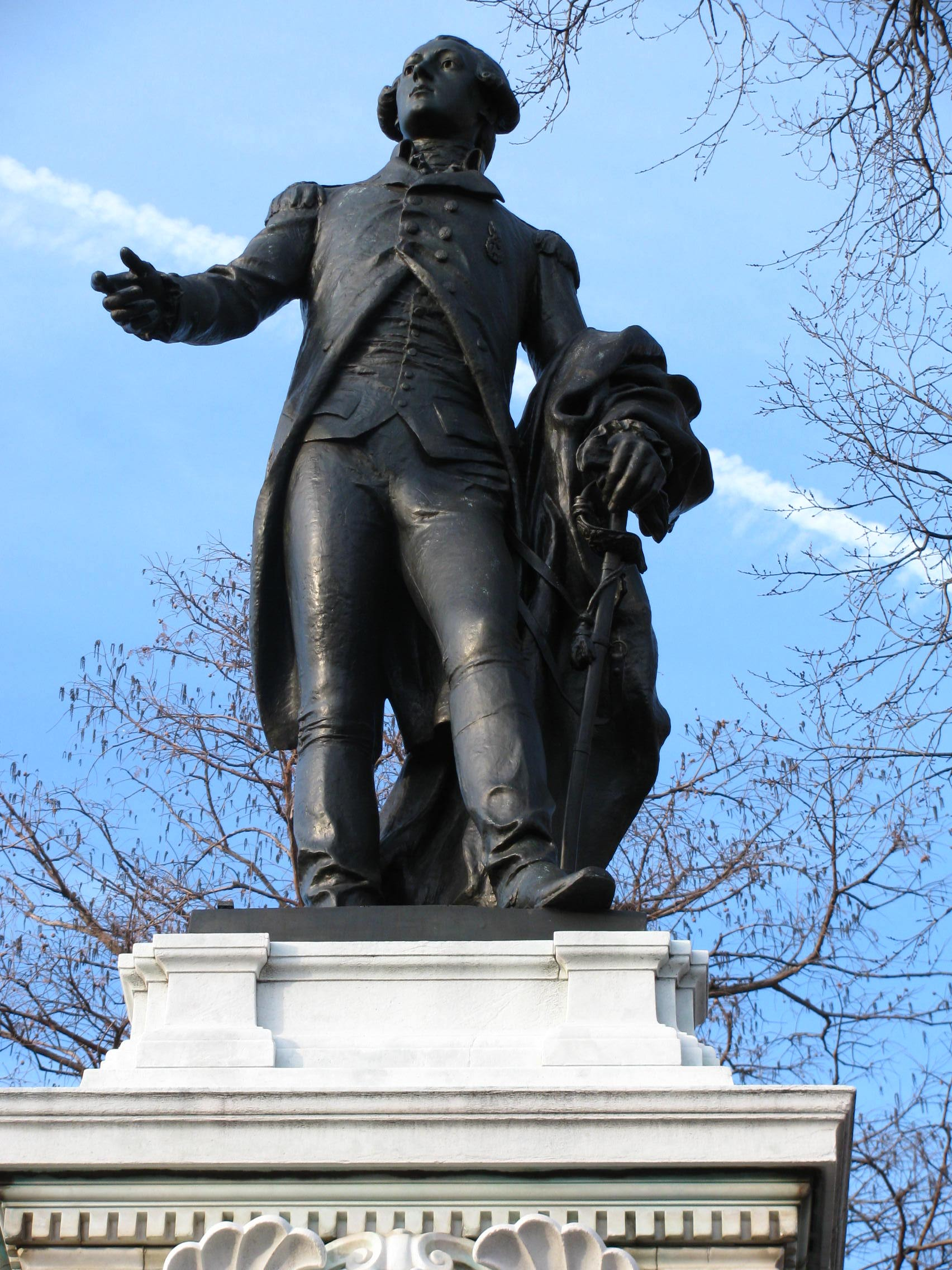 Major General Marquis Gilbert de Lafayette, (sculpture) in Lafayette Park in Washington, D.C. Other Titles: Maj. Gen. Marquis Gilbert de Lafayette, (sculpture). Dates: Cast 1890. Installed April 1891.